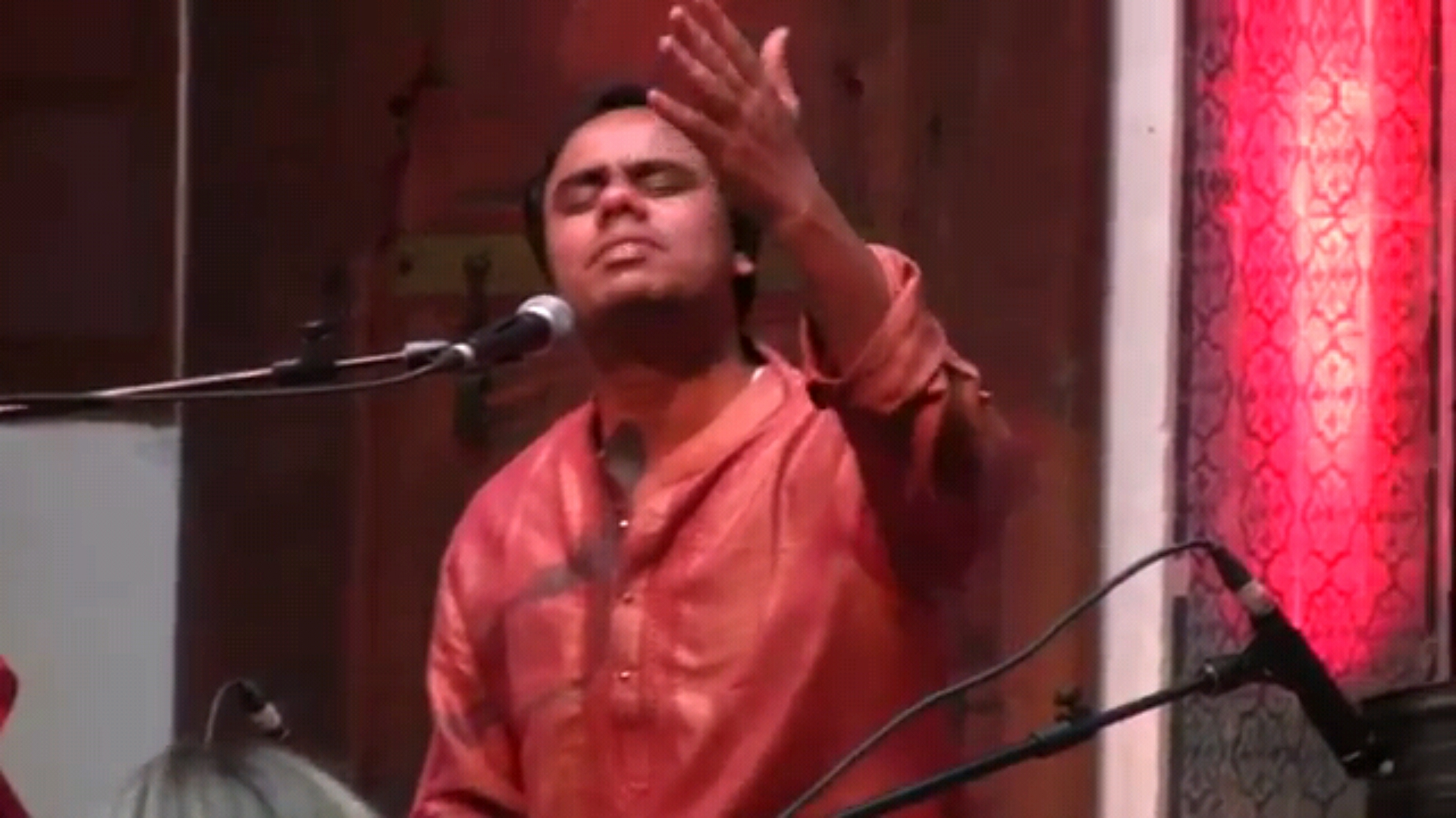 Pandit Shyam Sundar Goswami performing at Fes Festival in 2013